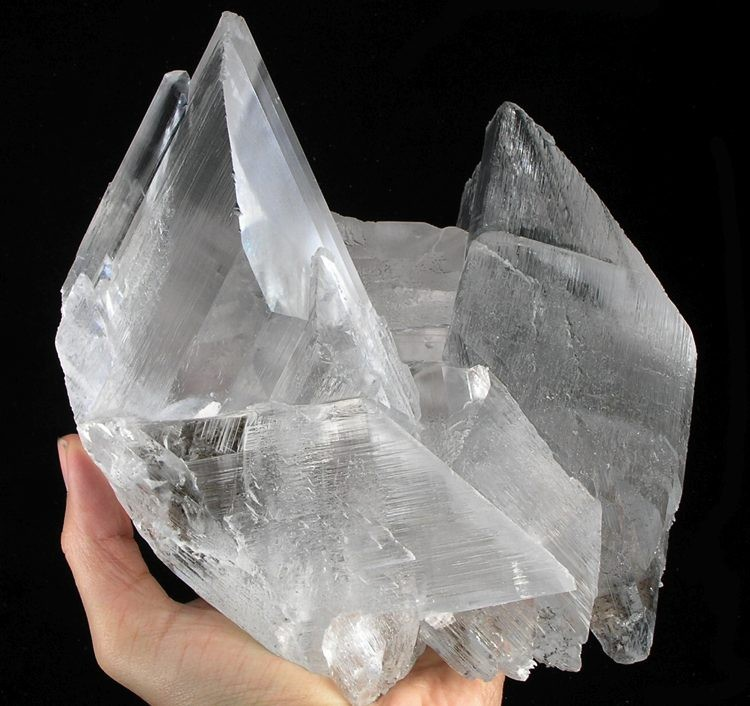 Gypsum (Var.: Gypsum) Locality: Naica, Municipio de Saucillo, Chihuahua, Mexico (Locality at ) Size: 18 x 14 x 13 cm. This selenite, from a new find at Naica, really stunned me. The crystals are huge and sharp, absolutely water clear, and the piece is just...dramatic. Weighing in at 5.7 pounds, this is a monster of a specimen and also of high quality. The piece is starkly 3-dimensional and it seems impossible it could have been mined underground and then safely shipped up here without damage but it is in fact pristine and complete all around. The doubly-terminated crystal on the right is 17 cm. These crystals are 5-6 cm thick and you can see right through them with no problems.